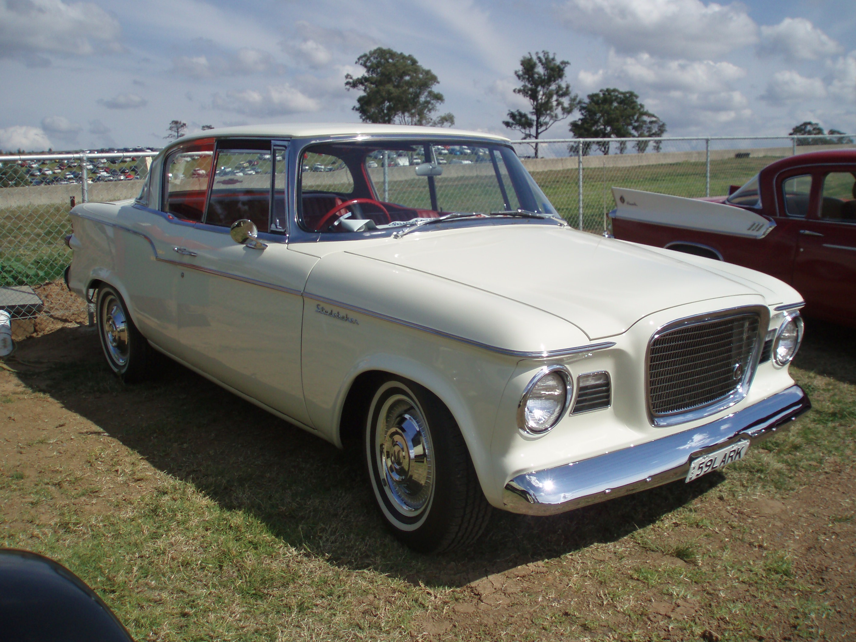 1959 Studebaker Lark coupe. Taken at Shannon's Eastern Creek Classic 2006, held at Eastern Creek Raceway Sydney.